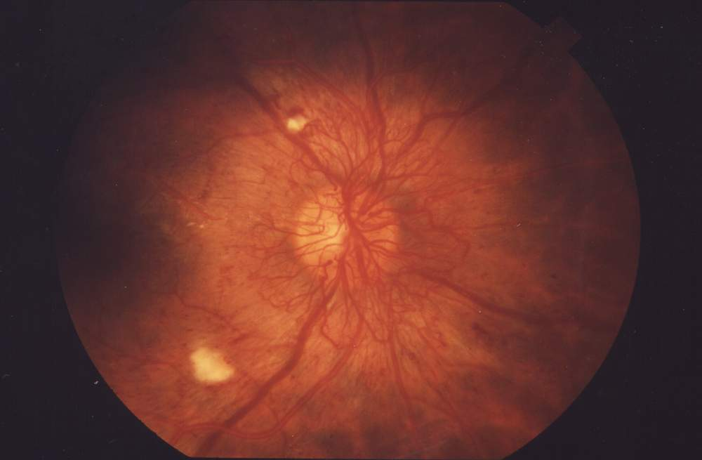 Proliferative retinopathy Description: Proliferative retinopathy, an advanced form of diabetic retinopathy, occurs when abnormal new blood vessels and scar tissue form on the surface of the retina. Credit: National Eye Institute, National Institutes of Health Ref#: EDA01